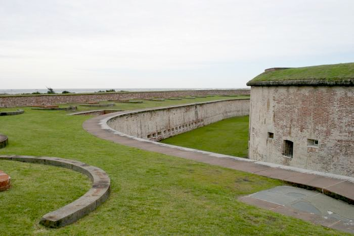 Fort Macon, Beaufort, North Carolina.Taken by me on April 12, 2003. Henryhartley 19:04, Mar 29, 2005 (UTC)